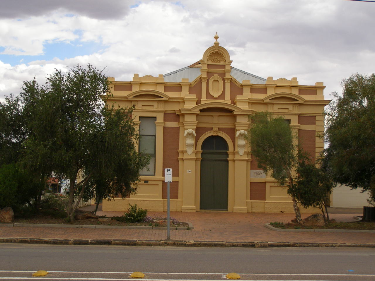 Council Chambers, Quorn, South Australia